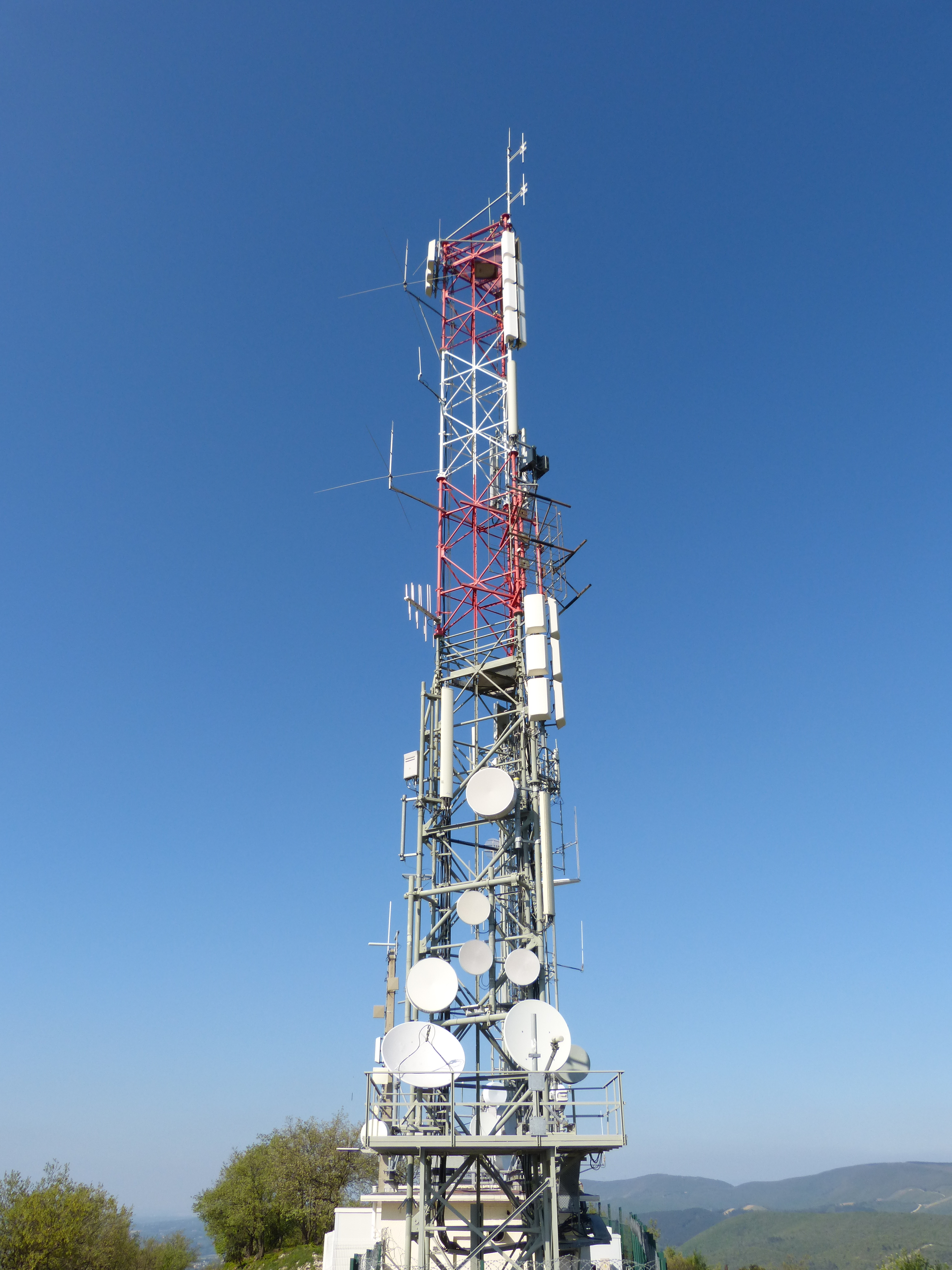 Antenna for telecommunications and television relay on the top of the communal hill (398m).